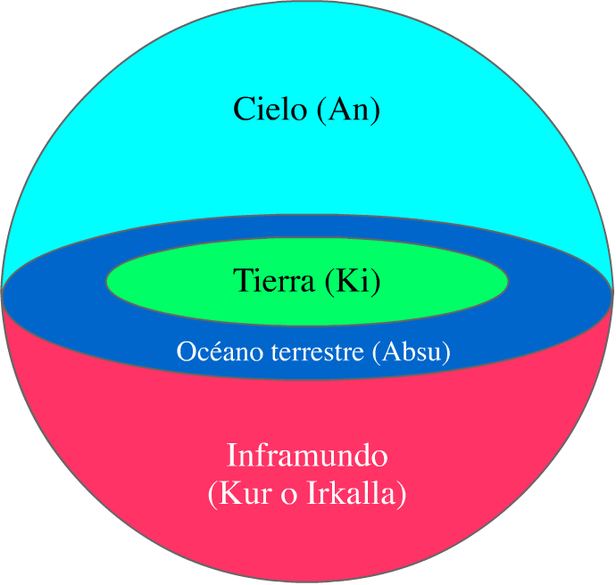 Summerian cosmology